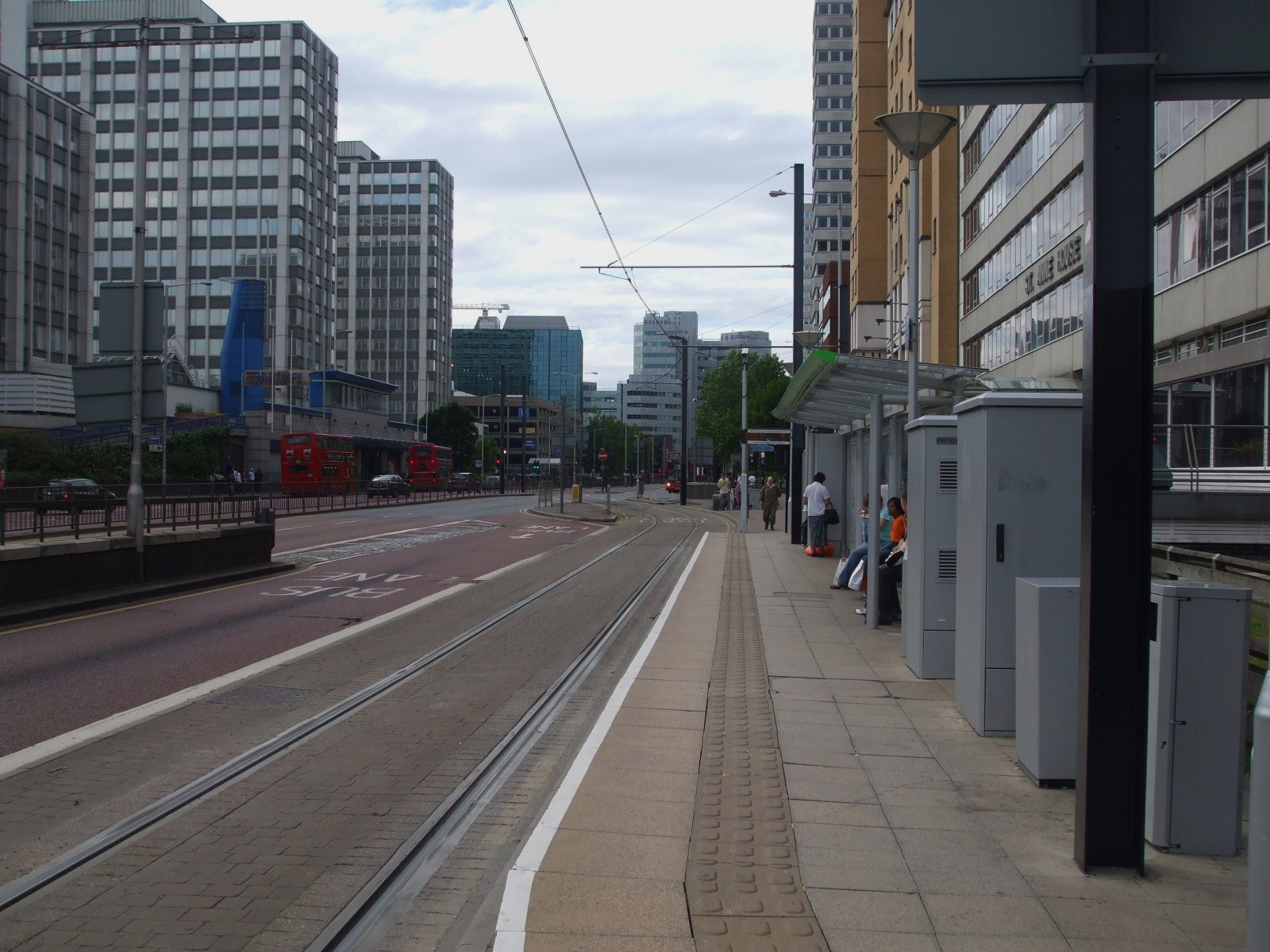 Wellesley Road tram stop uni-directional platform looking north. Served in the southbound direction only